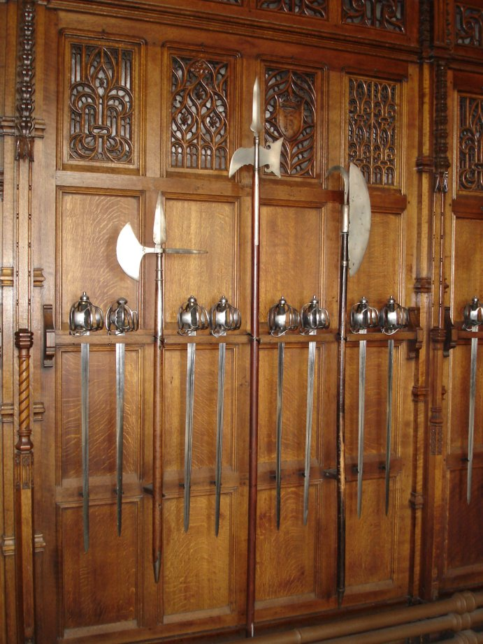 Pole Weapons with Mortuary Swords, in the Great Hall at Edinburgh Castle.